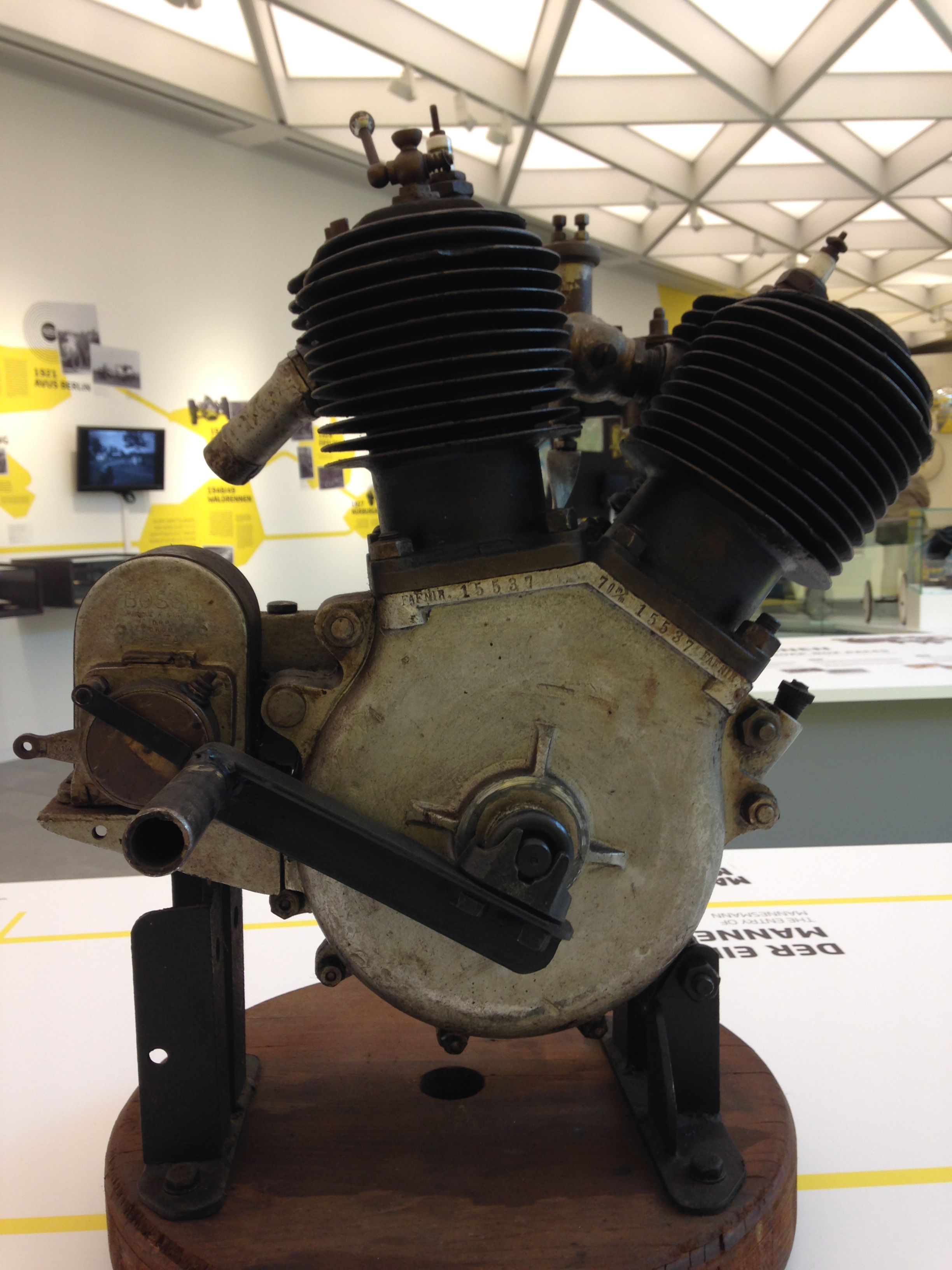 Fafnir motorcycle engine, around 1900